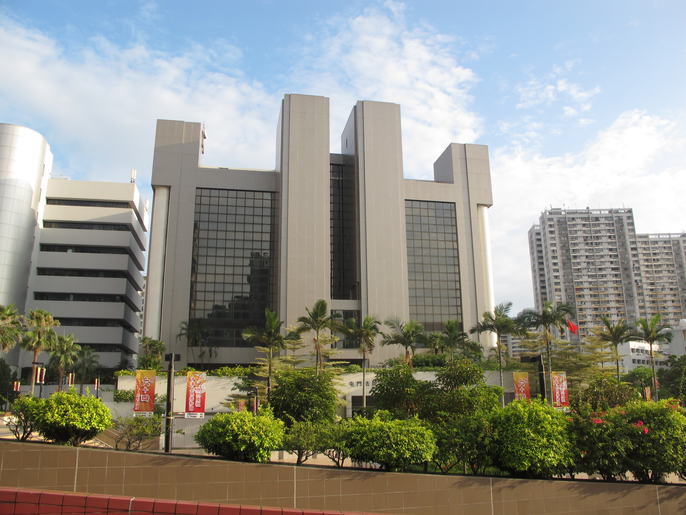 Tuen Mun Law Court